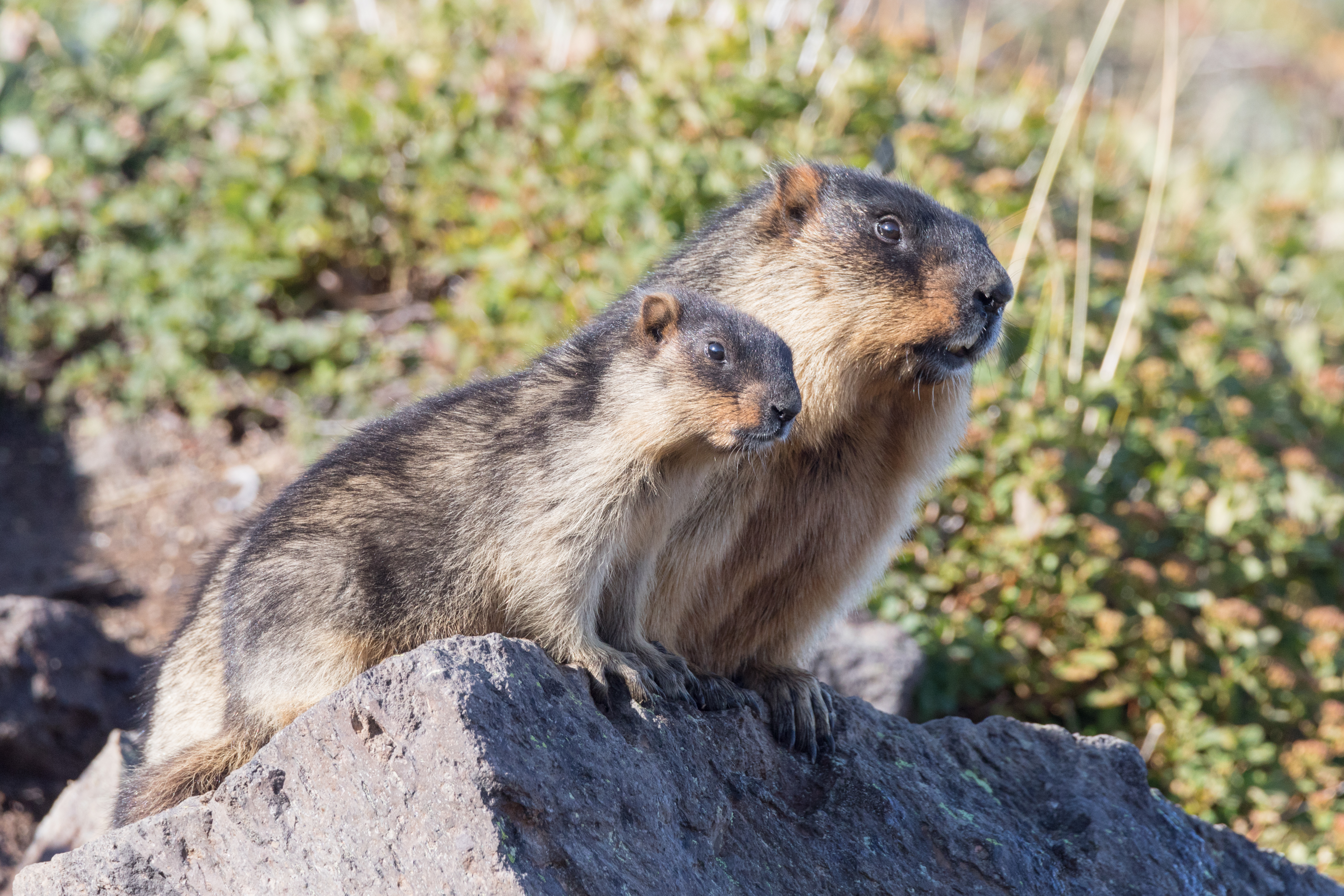 A pair of Black-capped marmots (Marmota camtschatica) in habitat. South Kamchatka Nature Park, Kamchatka Peninsula, Russia